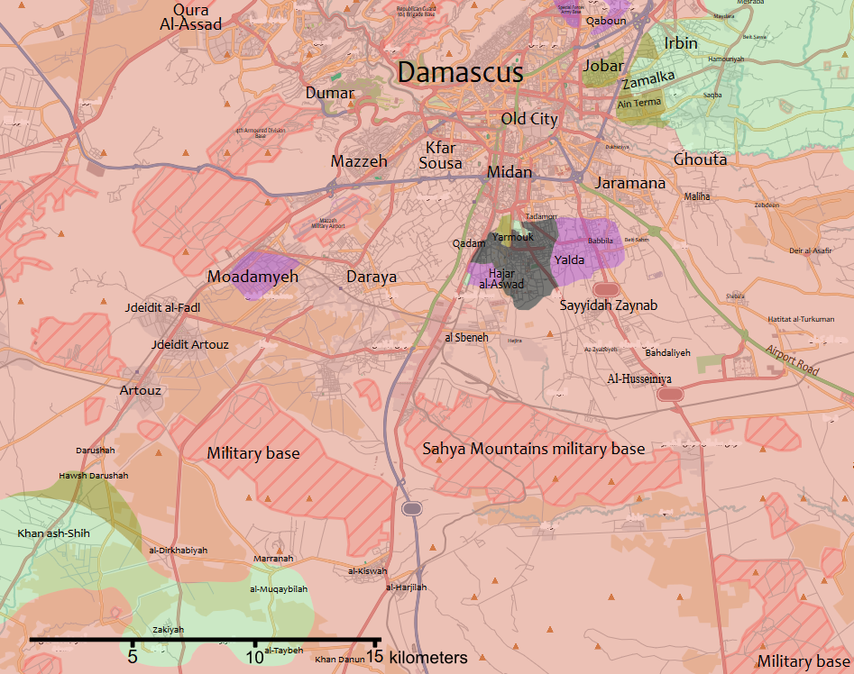 Map of the situation in Damascus and Rif Damashq during the Khan al-Shih offensive (October–November 2016).